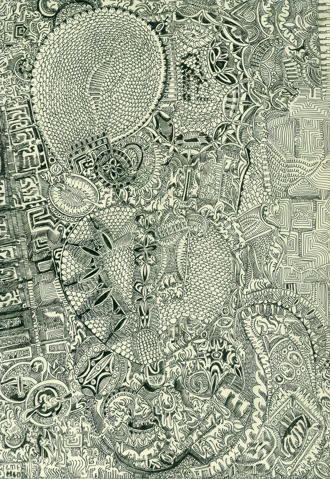 Nikita Storozhkov, "Untitled" (2015) 43 x 30,5 cm, pen on paper